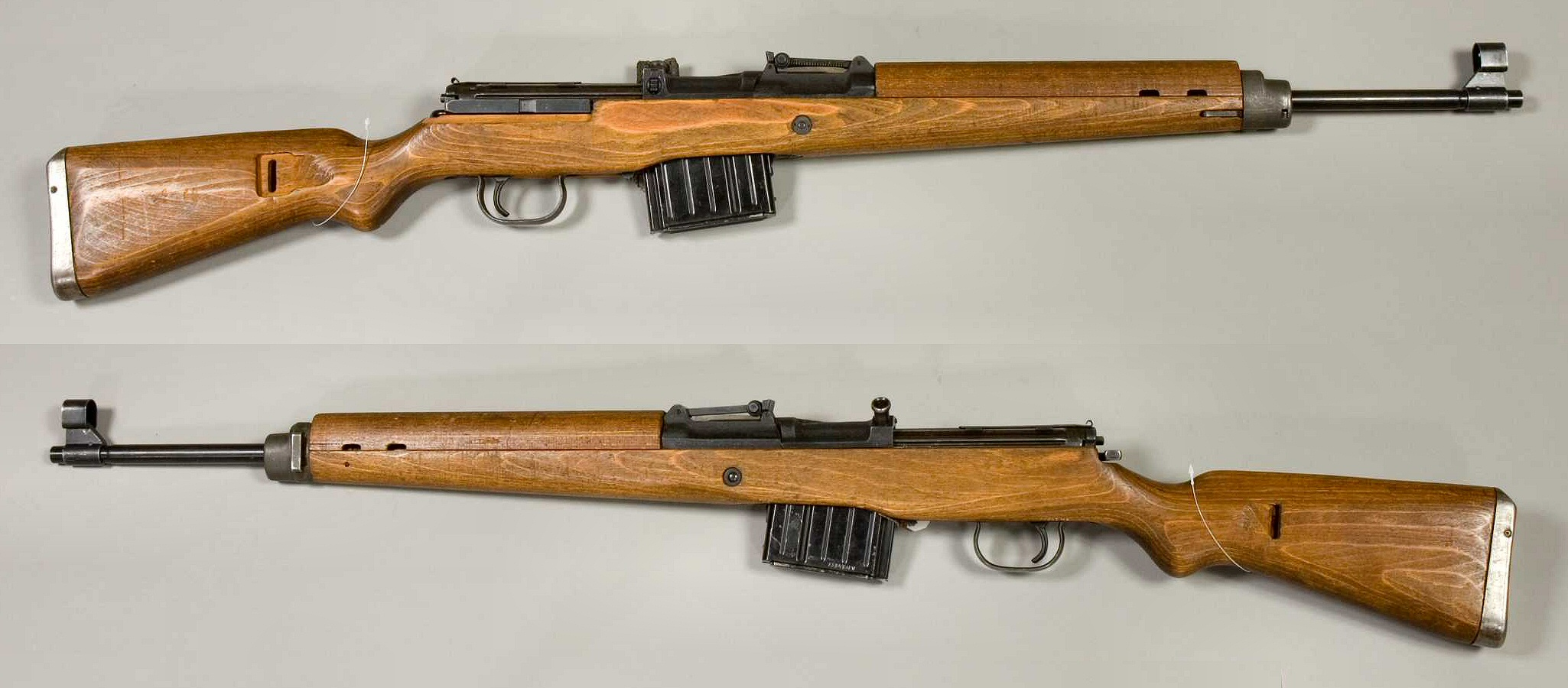 Gewehr 43, Germany. Caliber 7.92x57mm (8x57mmIS). From the collections of Armémuseum (Swedish Army Museum), Stockholm, Sweden.